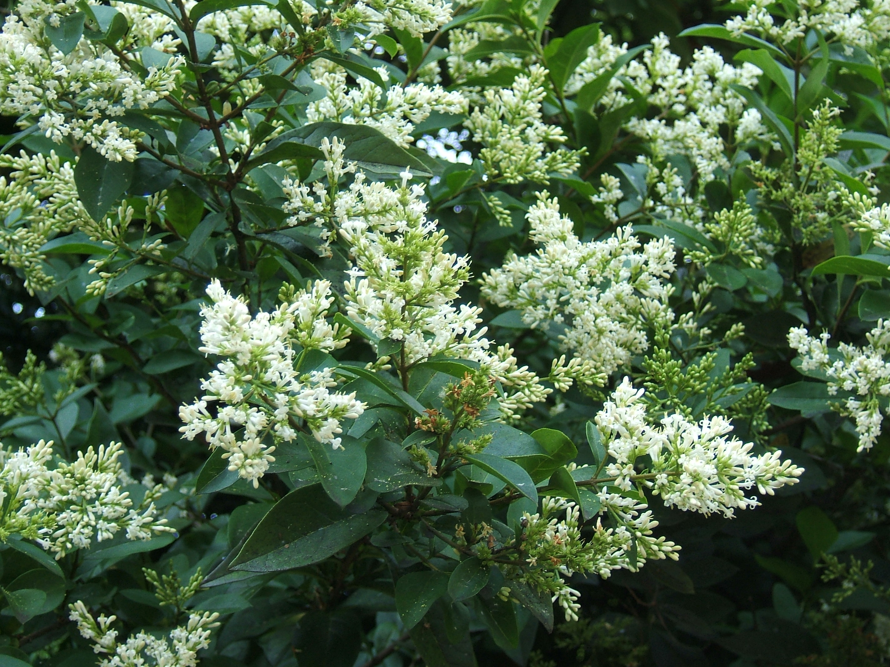 Ligustrum ovalifolium, cultivated, Northumberland, UK; July 2006